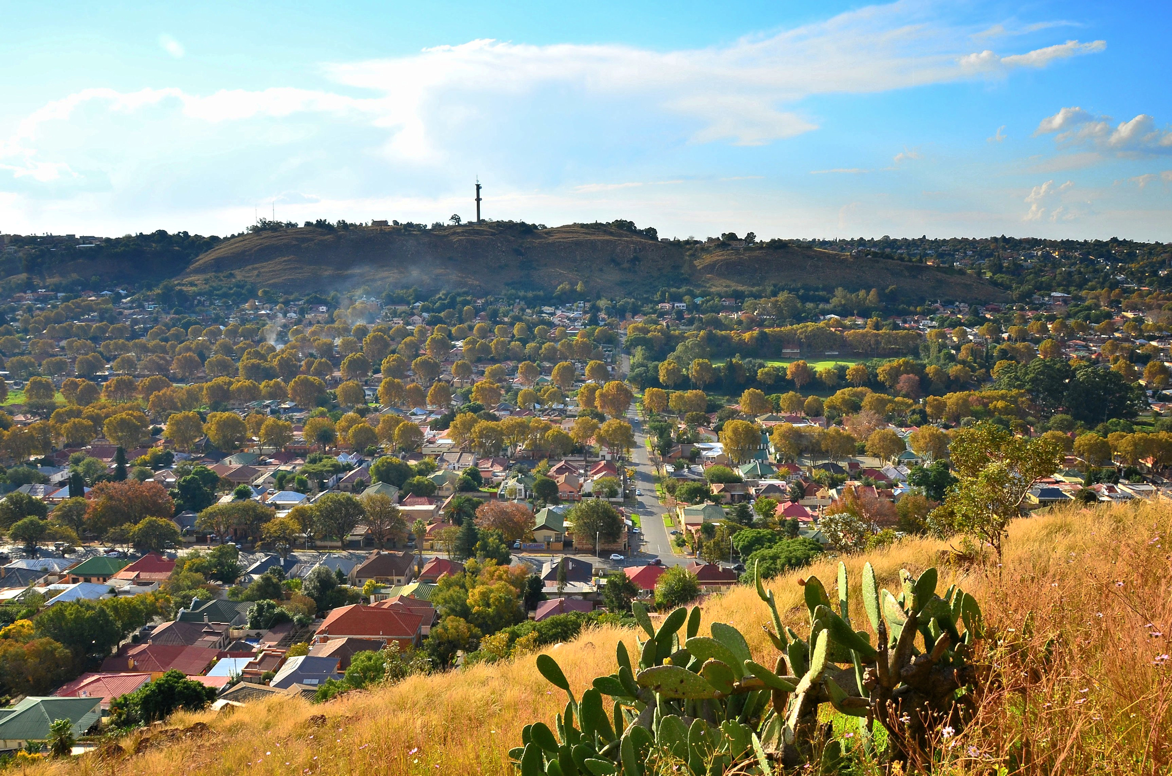 View over Bezuidenhout Valley, a suburb of Johannesburg, from the nearby hill called Langermannskop